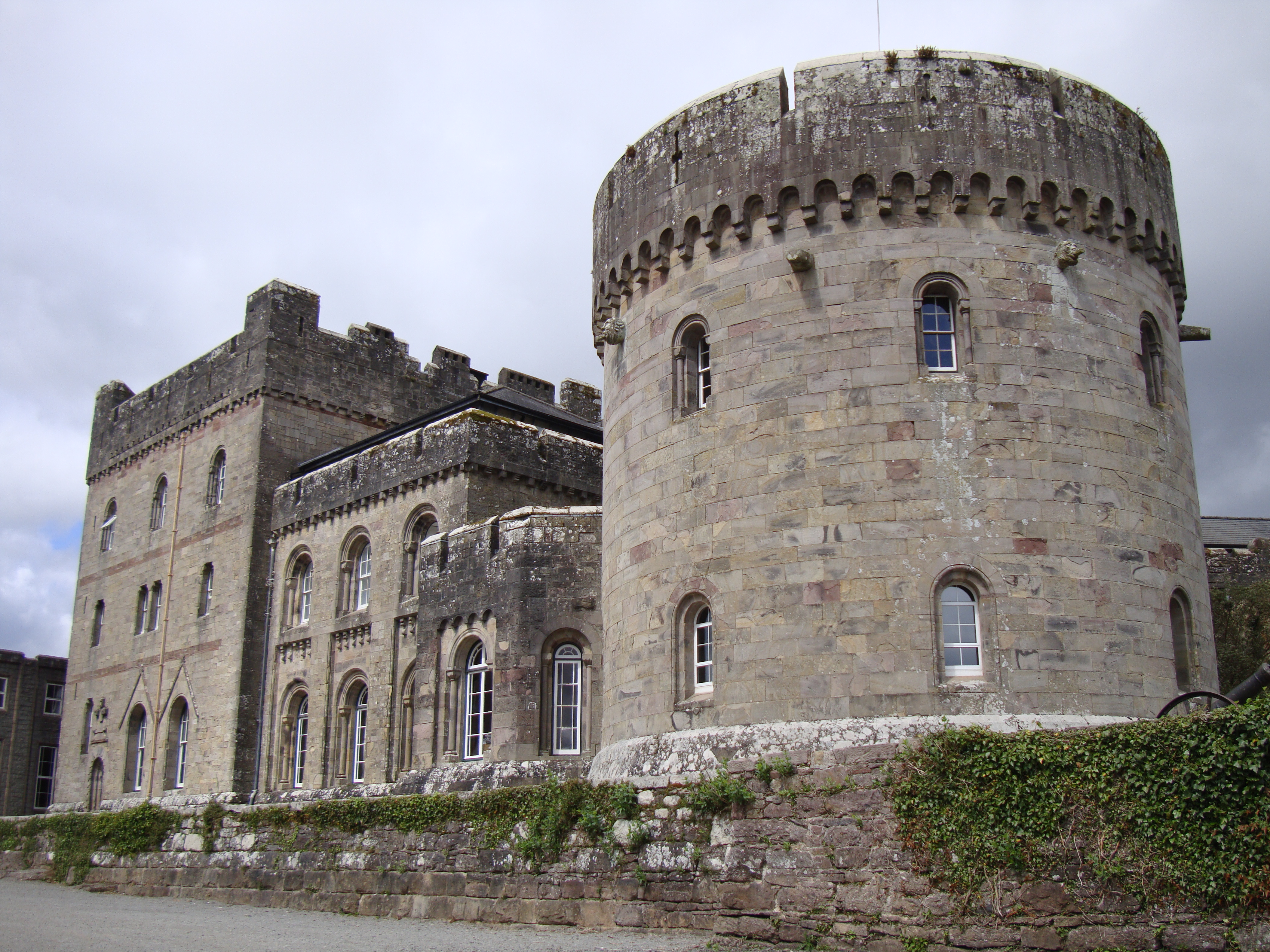 Photograph of Glenstal Abbey house, Co. Limerick, Ireland